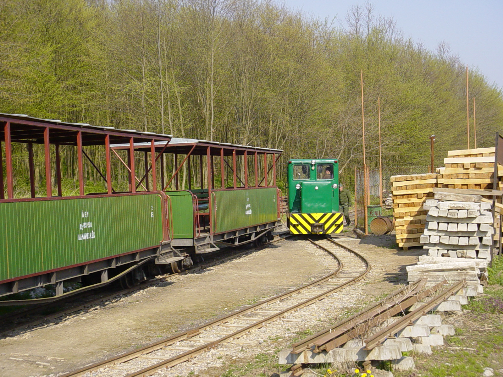 Switching (changing direction) in Sasrét on state forest railway of Almamellék in Hungary.